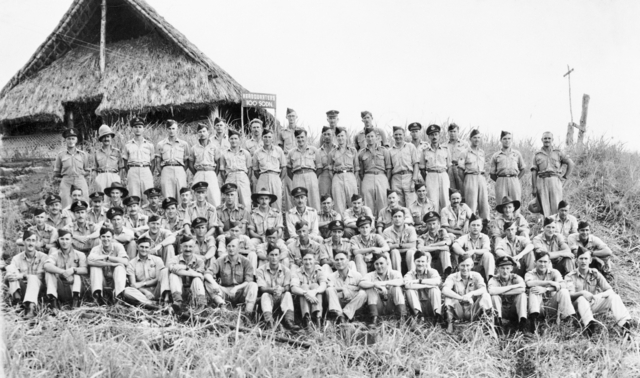 Group portrait of from aircrew No 100 Beaufort Bomber Squadron, RAAF, outside their headquarters hut on Goodenough Island